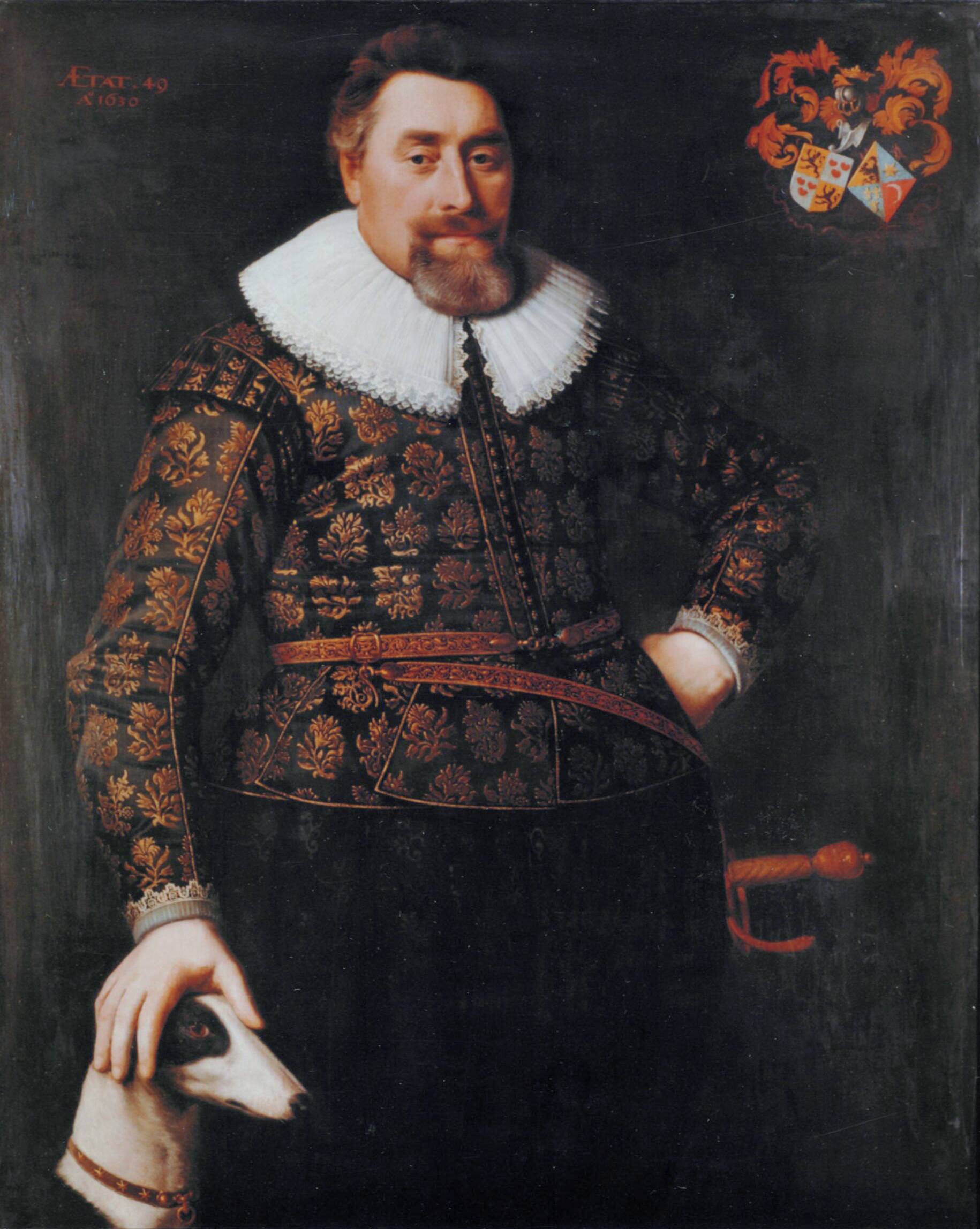 Frans Harinxma (van) Donia (ca. 1590-1651) oil on canvas 118,5 x 96 cm inscribed t.l.: Ætat. 49 / A° 1630